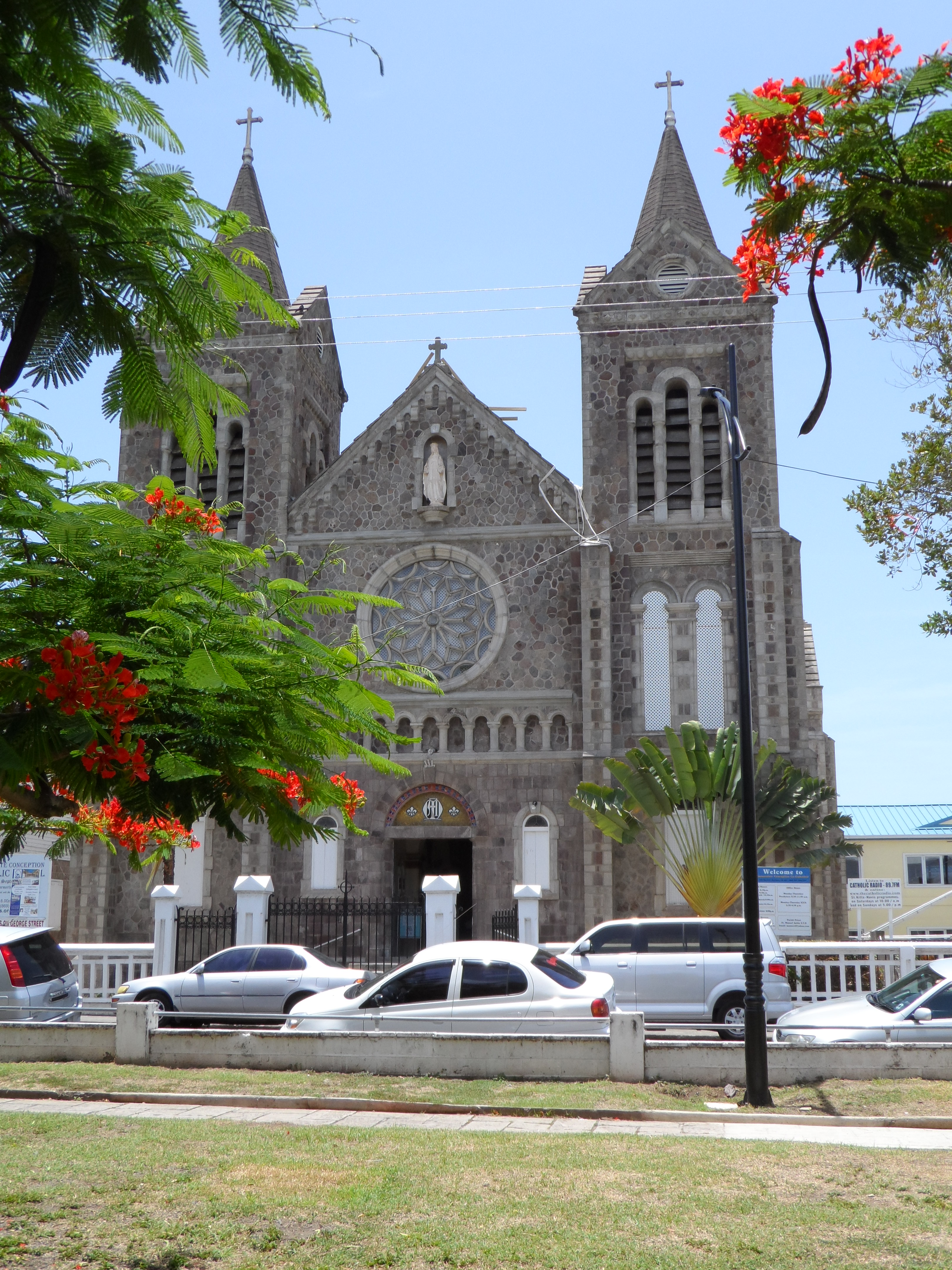 Basseterre Co-Cathedral of Immaculate Conception in Basseterre, Saint Kitts and Nevis